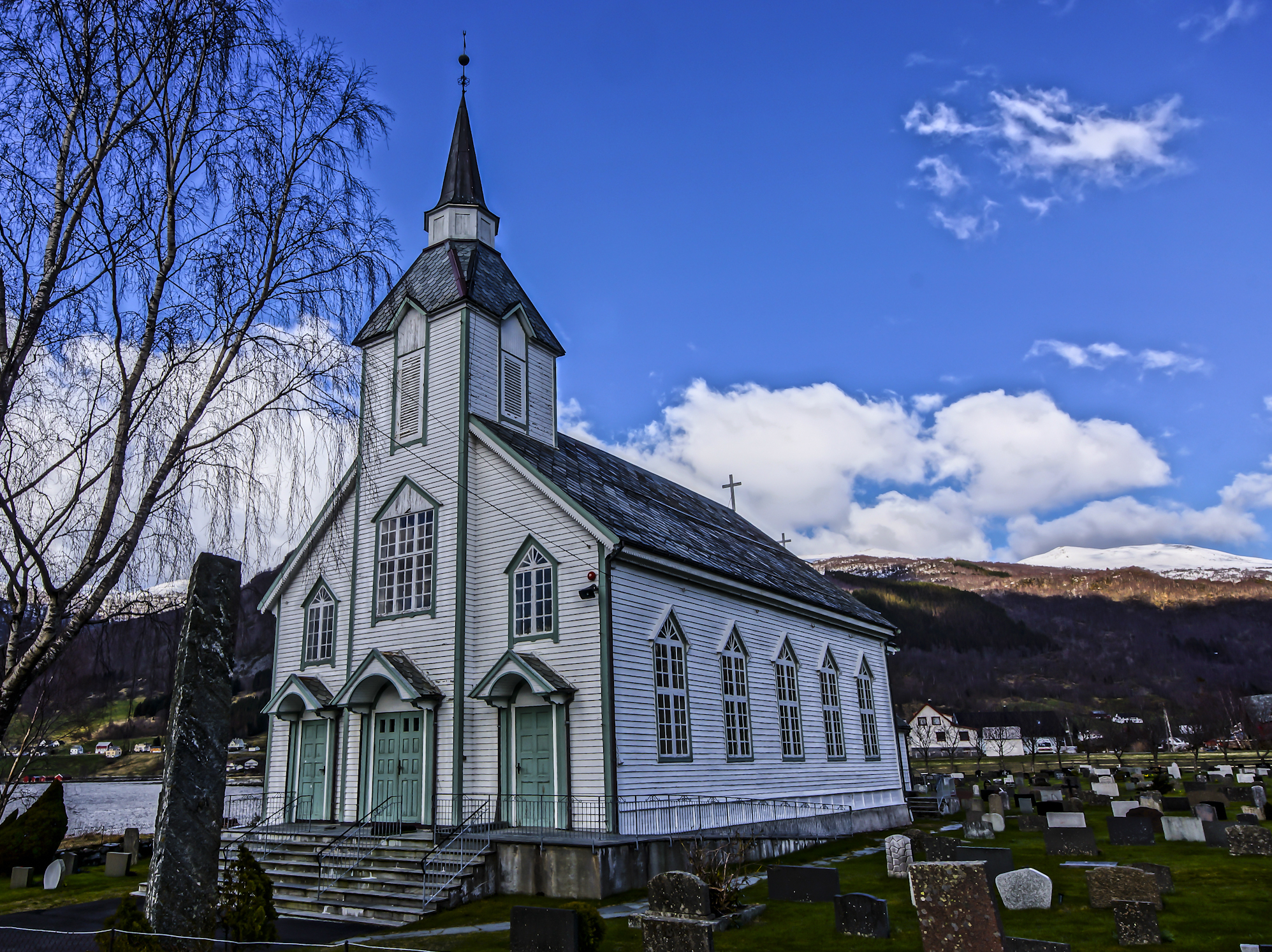 Syvde church from 1837 in Vanylven. Architect unknown.